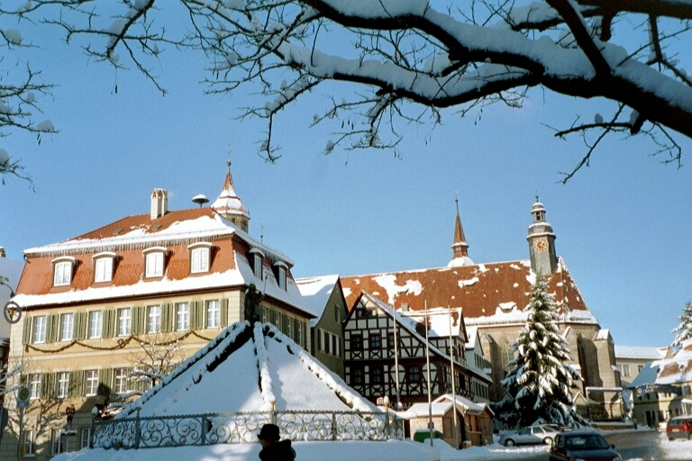 market place in Feuchtwangen with snow